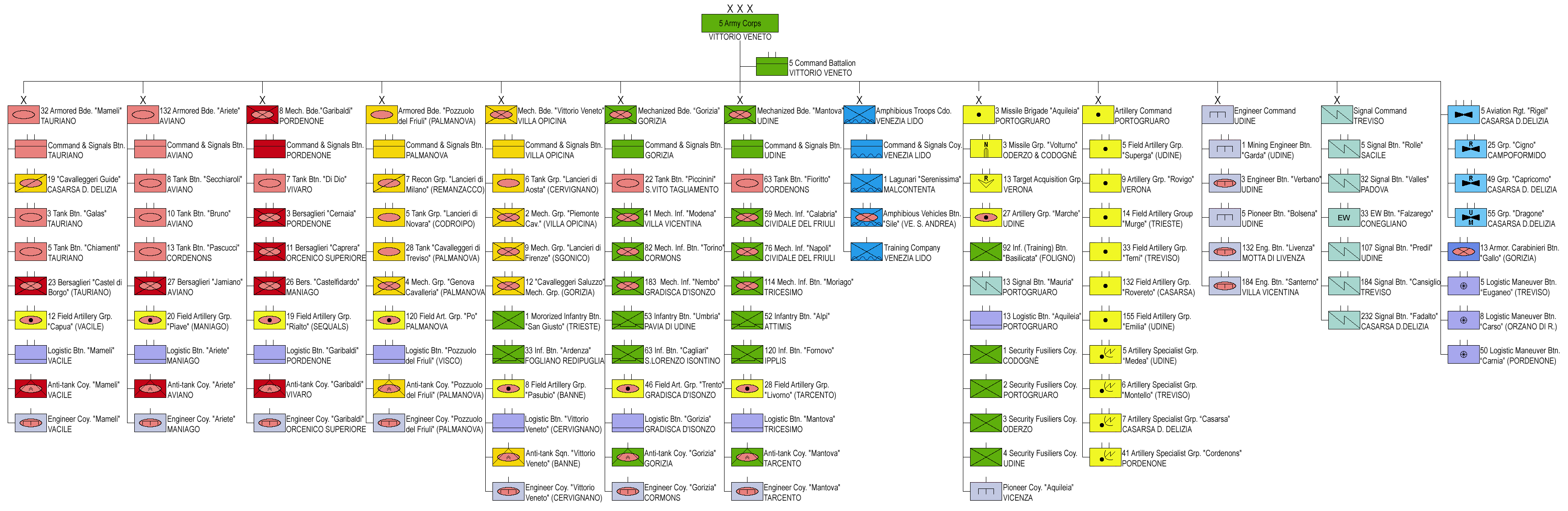 Italian Army - 5th Army Corps structure in 1989 before the drawdown of forces at the end of the Cold War began.